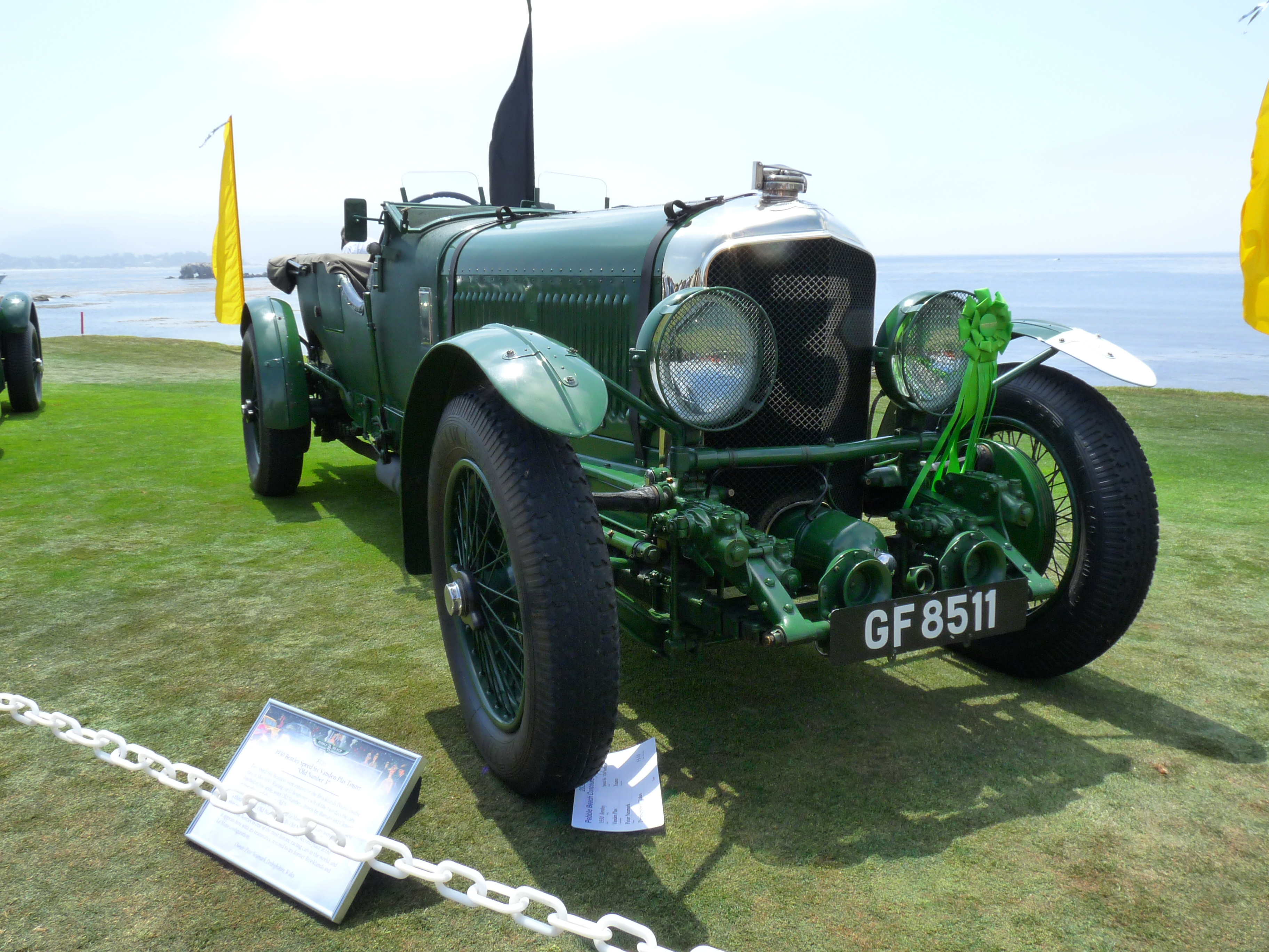 1930 Bentley Speed Six Vanden Plas Tourer "Old Number 3" at 2009 Pebble Beach Concours d'Elegance.